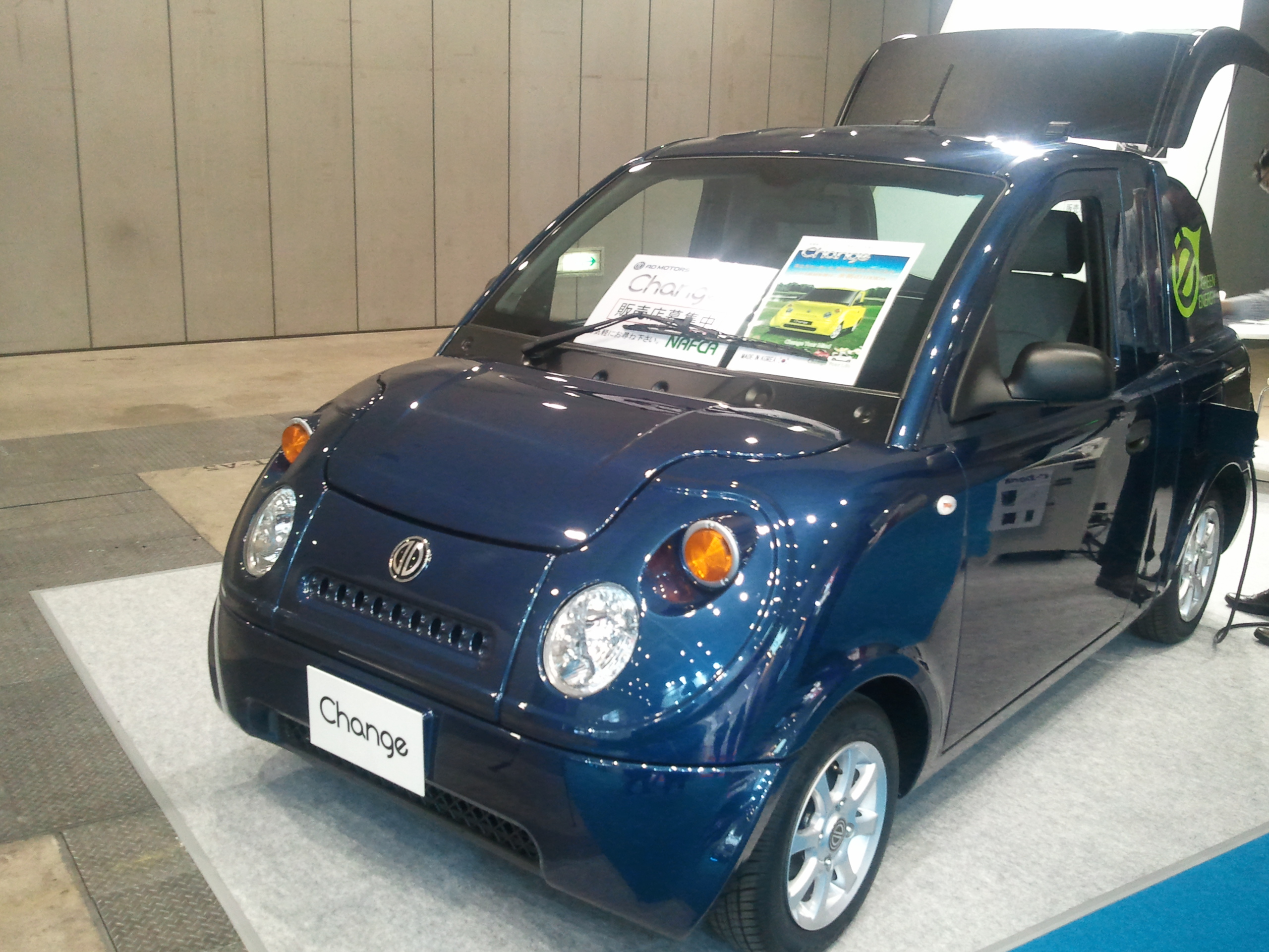 AD Motors Change Electric Vehicle photographed at the Tokyo Motor Show 2011.